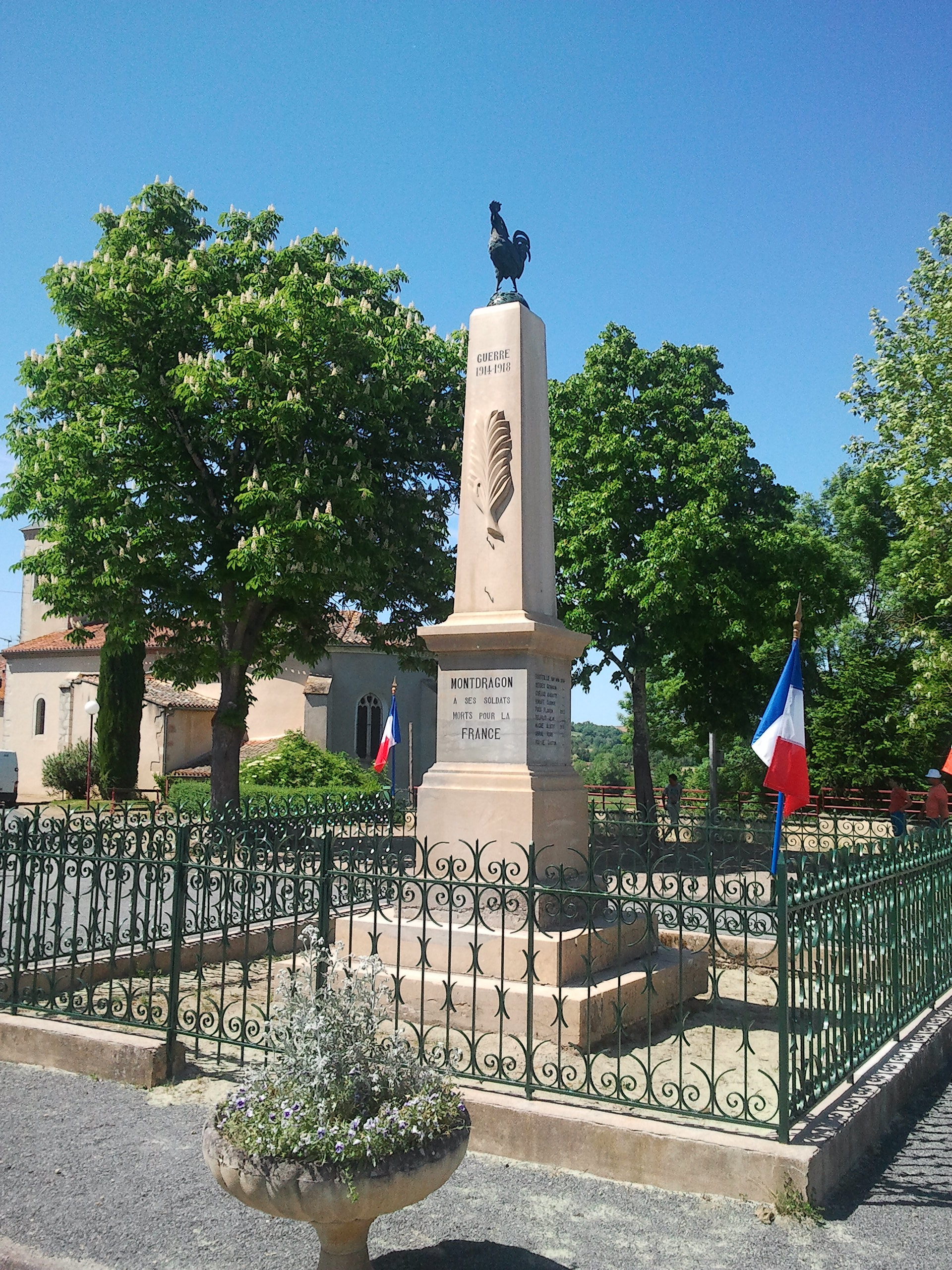 War memorial in Montdragon